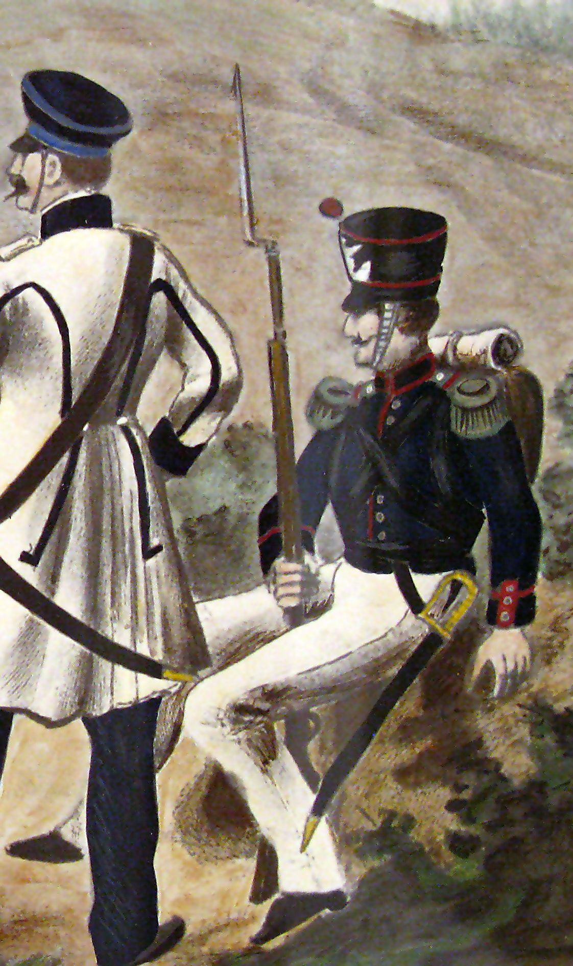 5th Regiment of Chasseurs à Pied "Children of Warsaw" of Polish Army of November Uprising